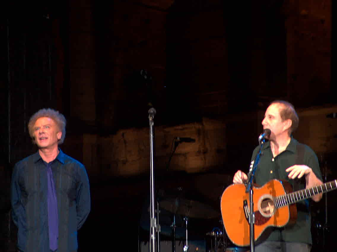 Picture depicting Simon and Garfunkel (Simon with guitar).